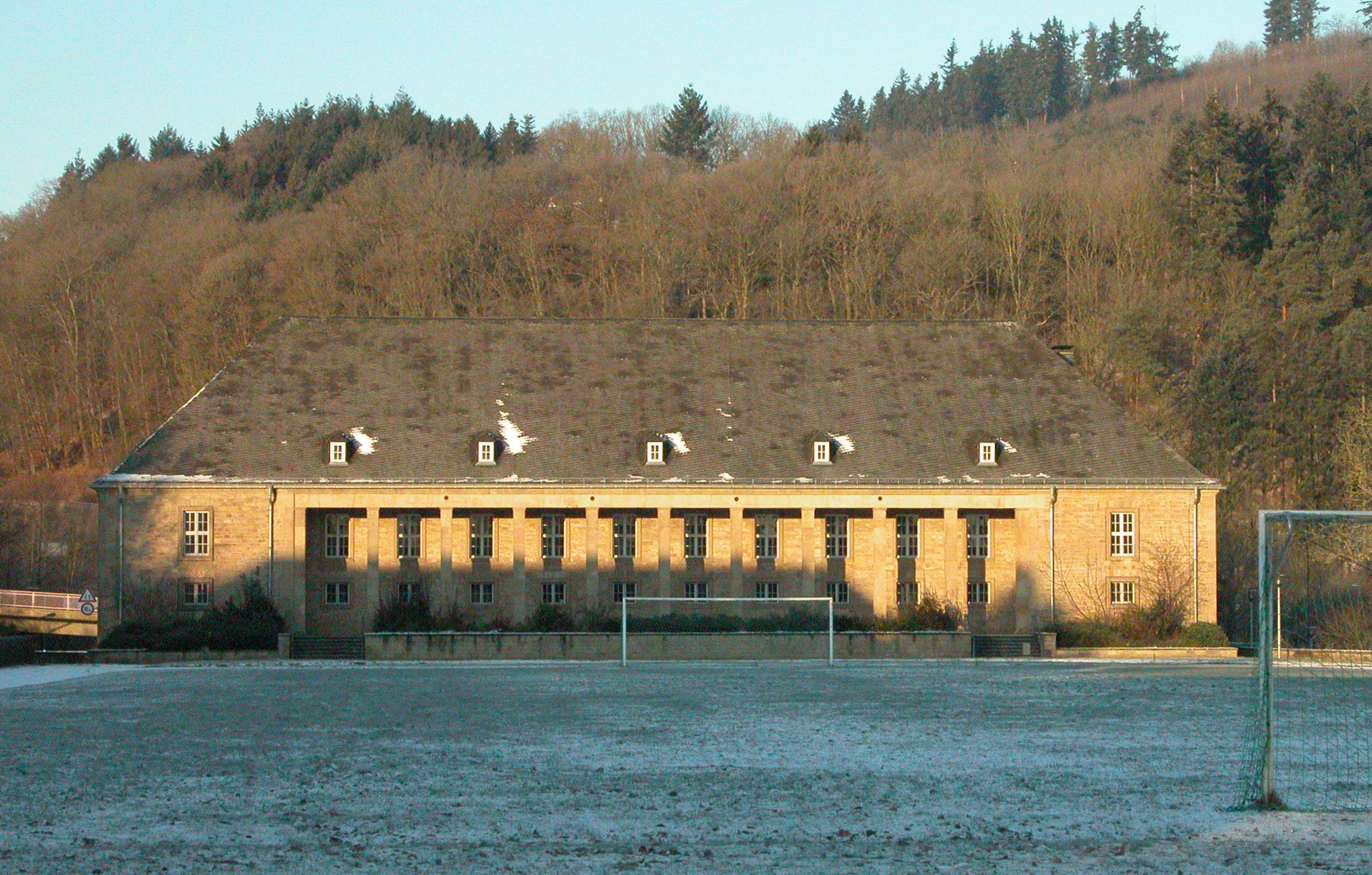 University of applied sciences Trier, historical buildings: gym